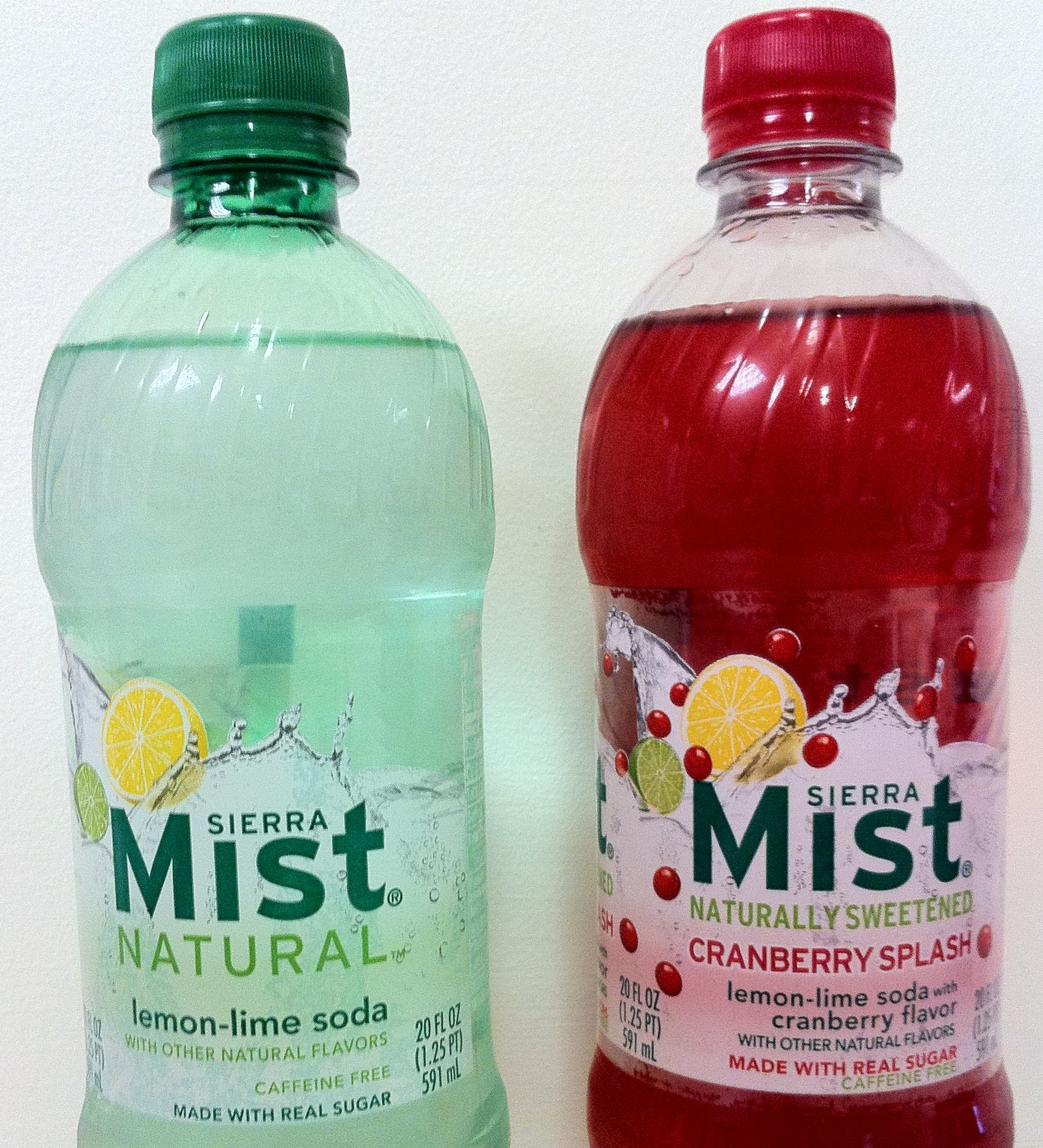 Two 20-ounce bottles of Sierra Mist Natural -- in the most current bottle labeling released in August, 2010. Shown in this photo are two separate products: "Sierra Mist Natural", and "Sierra Mist Cranberry Splash (Naturally Sweetened)" As the rights-holder and photographer, I hereby release this photo specifically for use on Wikipedia/the Wikimedia Commons (and elsewhere) under the Creative Commons Attribution-ShareAlike 2.0 Generic license. Please feel free to use, remix and adapt it.